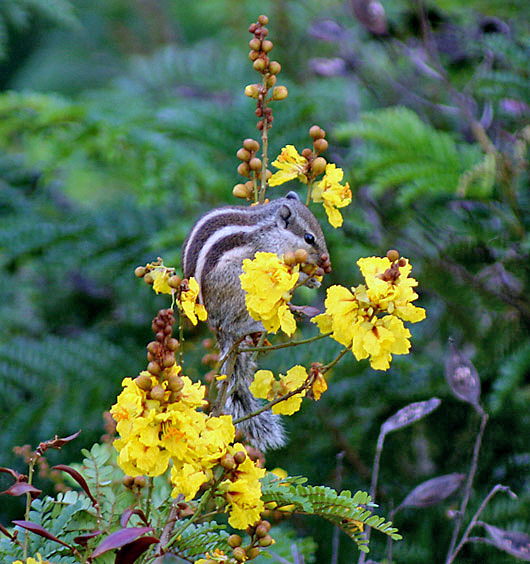 Copperpod Peltophorum pterocarpum in Kolkata, West Bengal, India.